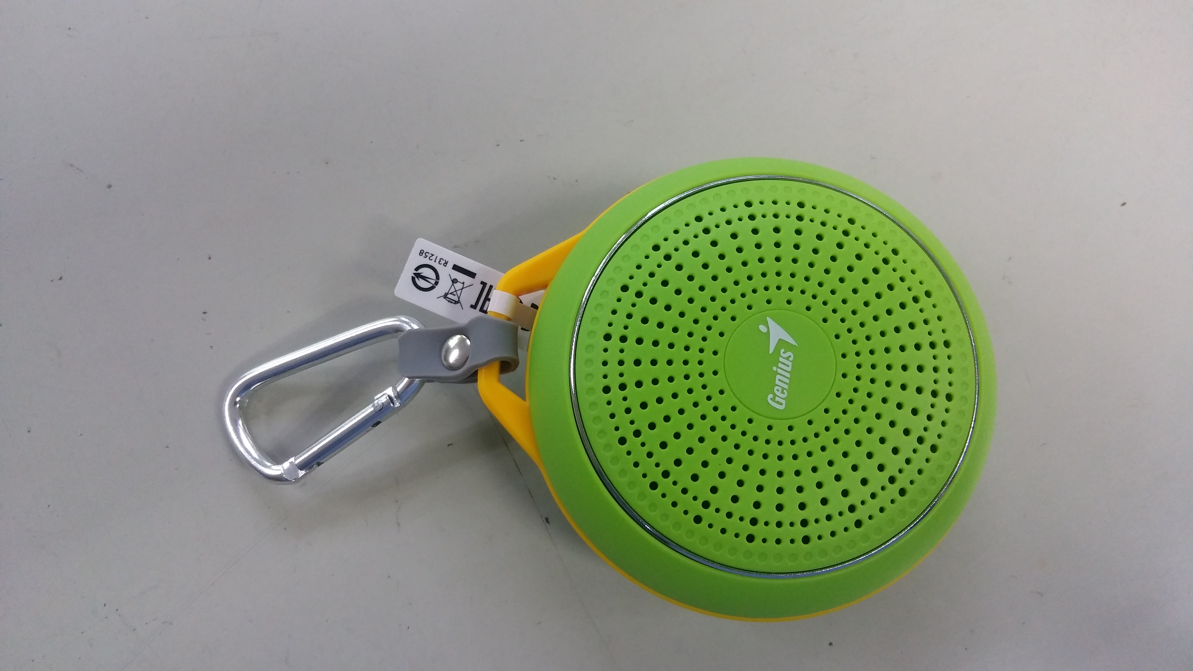 Genius Bluetooth Speaker SP-906BT.